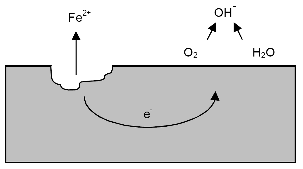 Electrochemical corrosion of iron due to contact with water. That is: rusting.